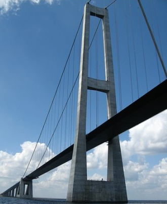 Storebæltsbroen (Great Belt Fixed Link) over the Storebælt in Denmark